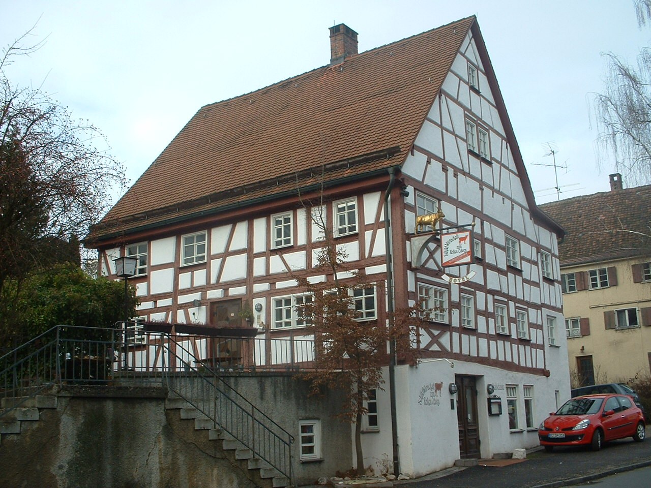 Public House "Zum Rothen Ochsen" in Laupheim